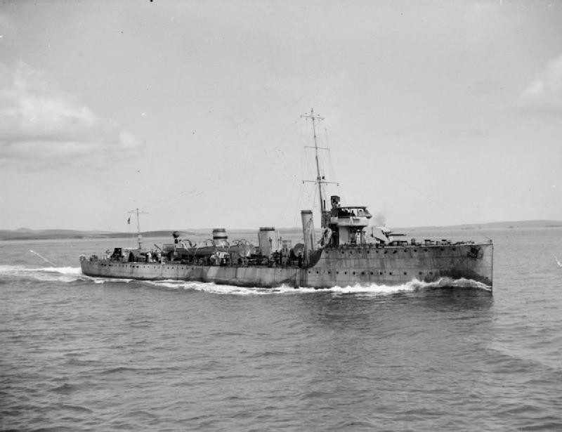 Photograph of British Acorn class destroyer HMS Redpole leaving Mudros.